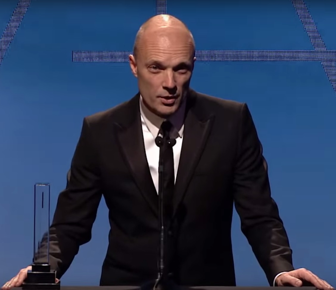 Production Designer Andy Nicholson receiving the Art Directors Guild award for Fantasy Feature Film for Gravity.